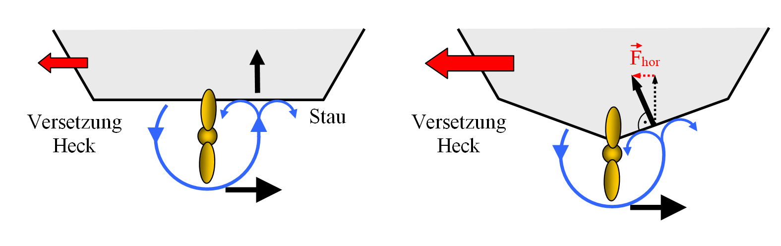 Influence of the hull on the propeller walk (aft sight)